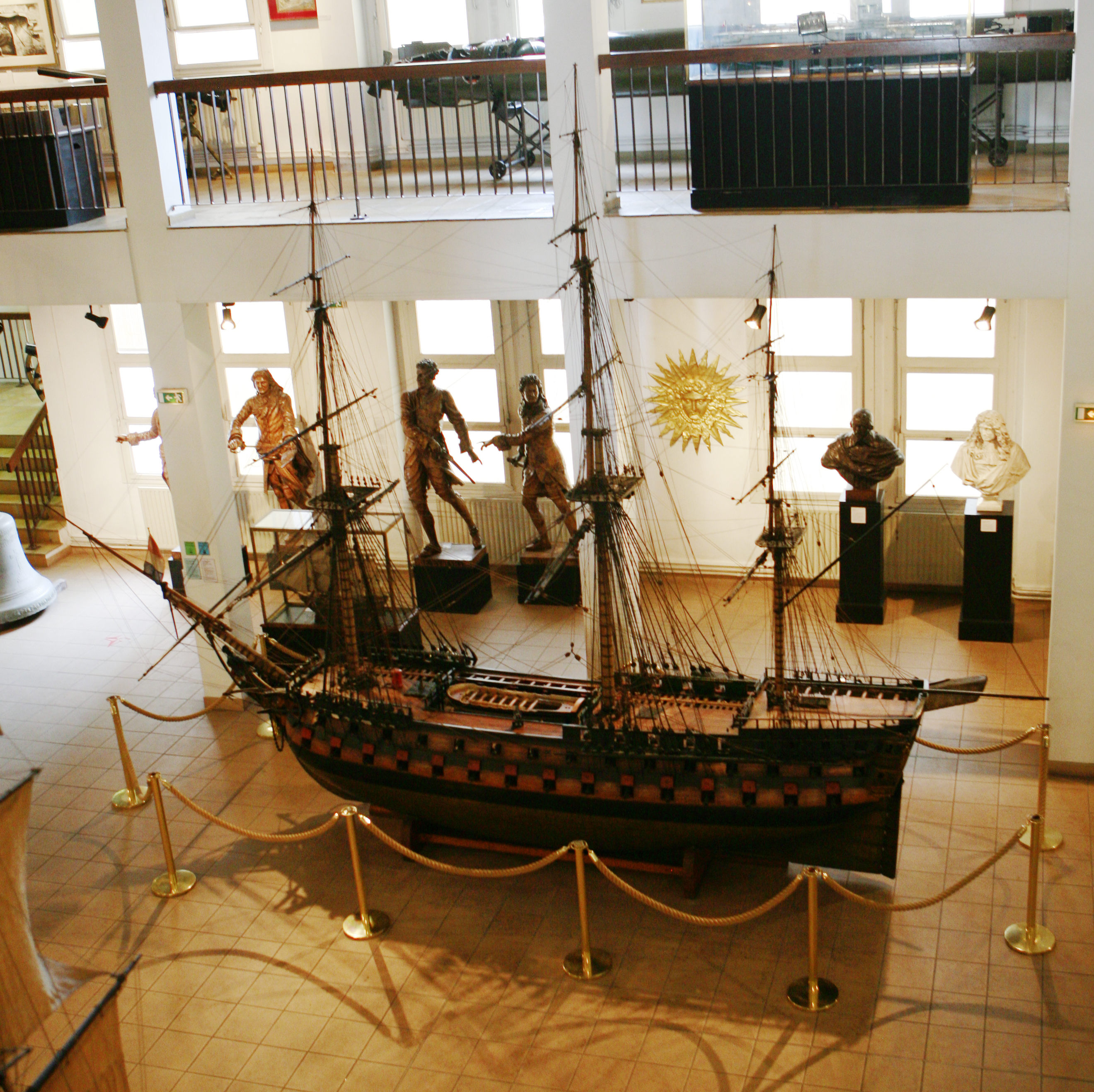 Model of the Duquesne (1787-1803), a 74-gun ship of the line of the French Navy. Model on display at Toulon naval museum. Made in 1788, anonymous, accession number 13 MG 30.